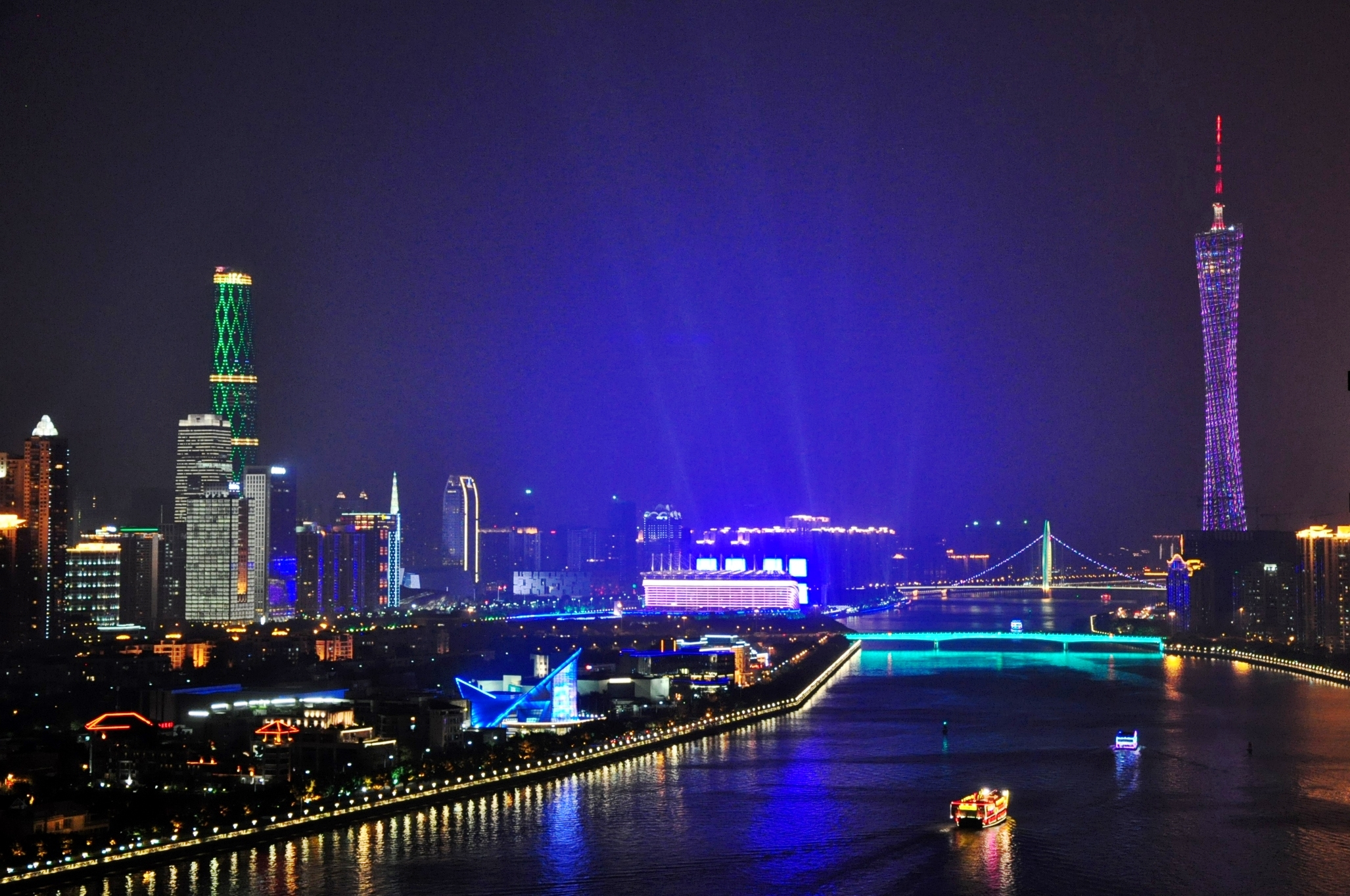 Pearl River and Cantor Tower, Guangzhou